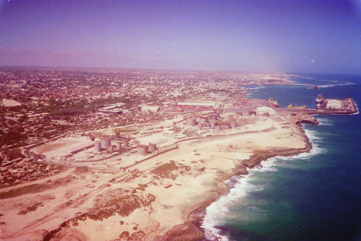 Aerial shot of the Mogadishu, Somalia coastline.